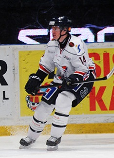 Mark Matheson during a SHL game against AIK.